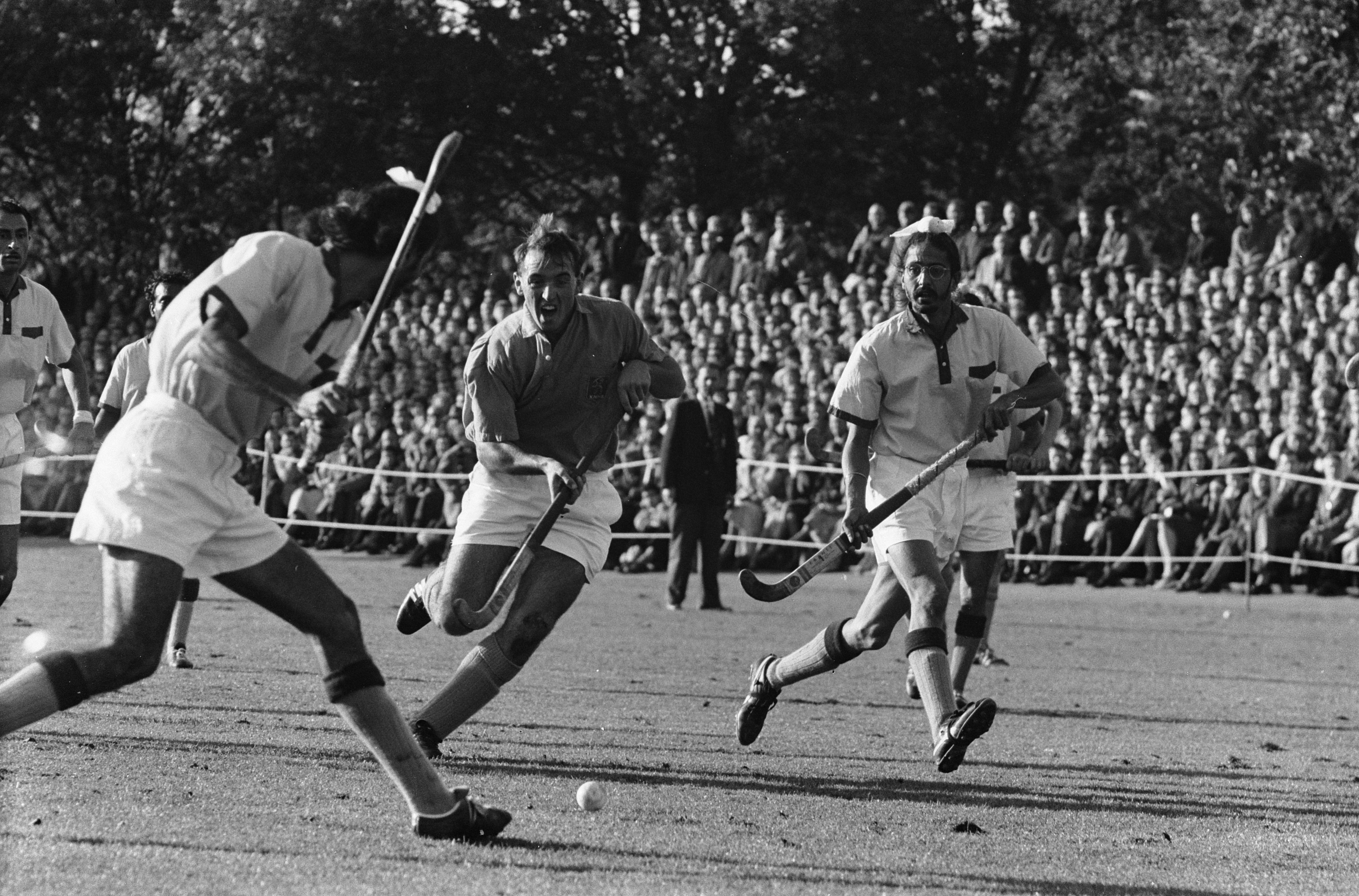 Hockey: the Netherlands playing India, 0-1. Location: Wagener Stadium, Amstelveen. Date: 13 October 1963.